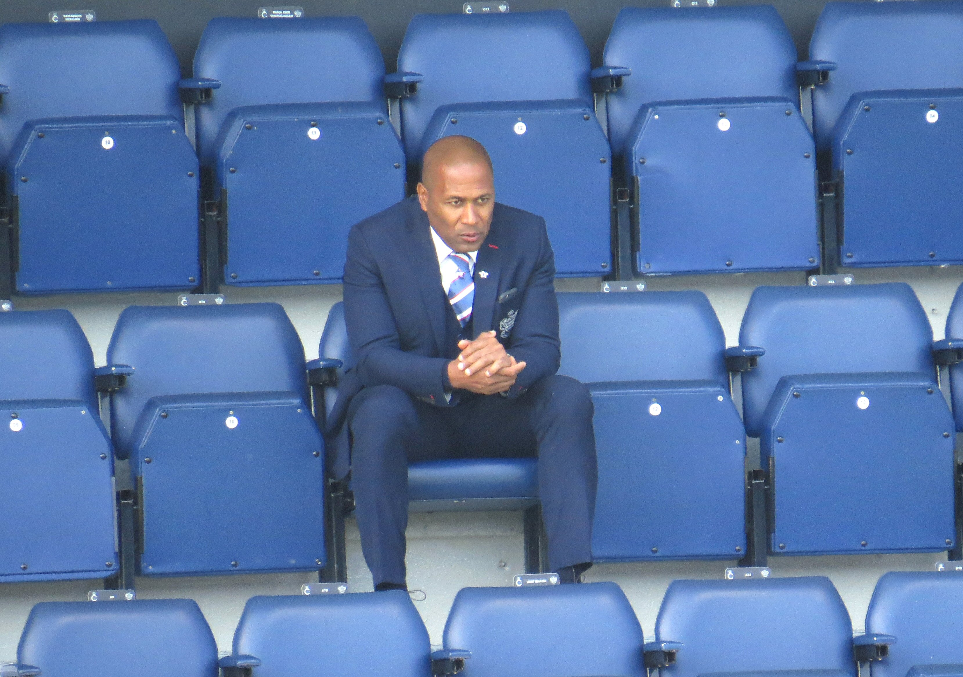 Les Ferdinand watches the last QPR home game of the 2014-15 season v Newcastle